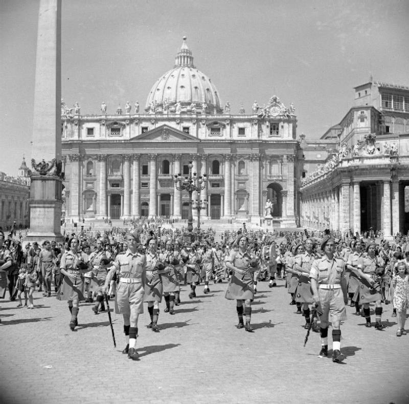 The British Army in Italy 1944 The band of the Irish Brigade plays in front of St Peter's Church in the Vatican City, Rome, 12 June 1944.